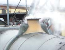 Typical Great Western Railway safety valve cover in polished brass. Photographed on the Castle class Earl Bathurst. The green-painted protuberances either side are covers for the top-feed clacks (boiler feedwater supply).